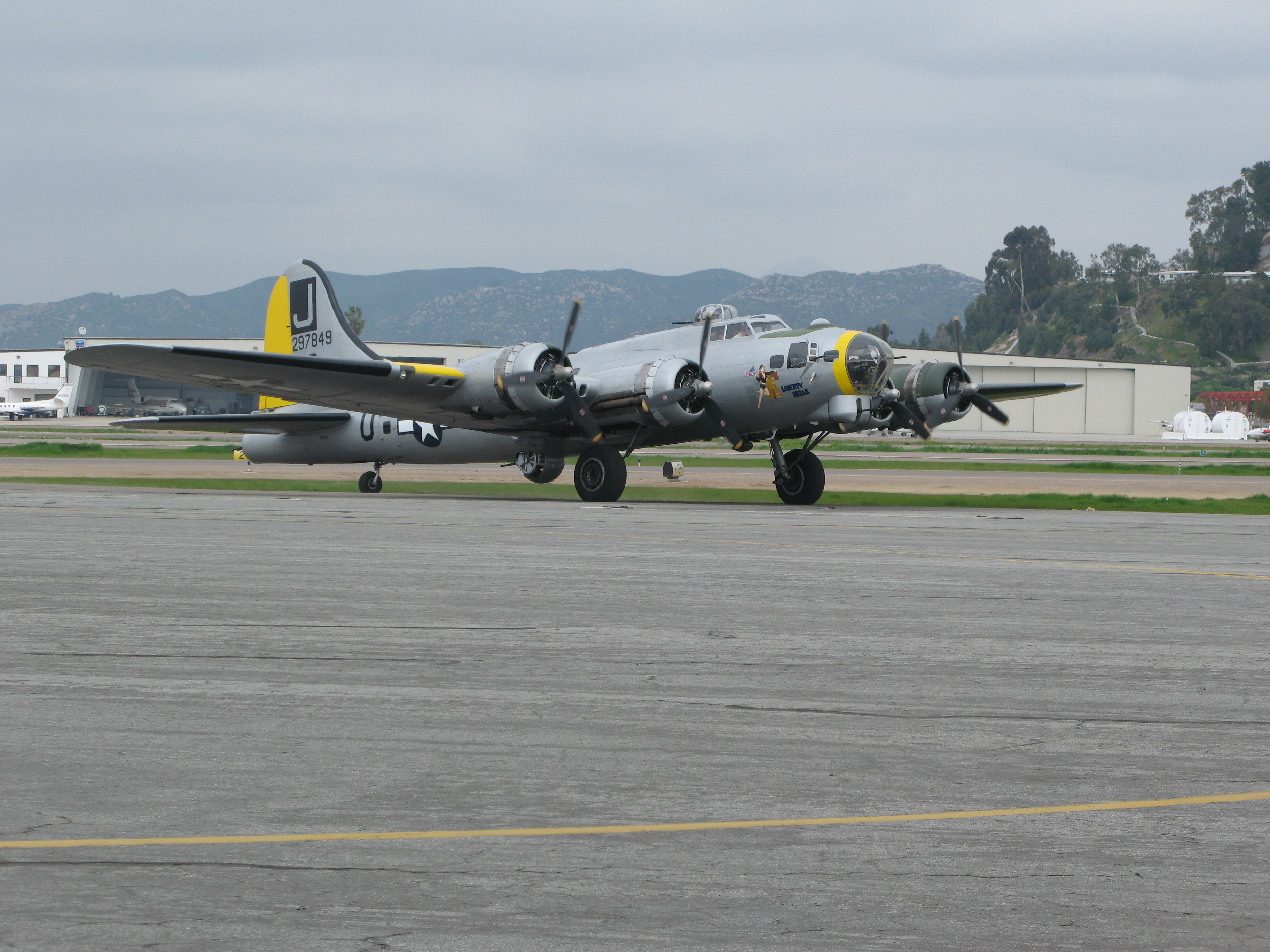 Liberty Belle B-17G-105VE 44-85734 (N390TH), taken at Gillespie Field, El Cajon, CA, USA on 1 March 2008 taken by Mark Strawn using Canon G7